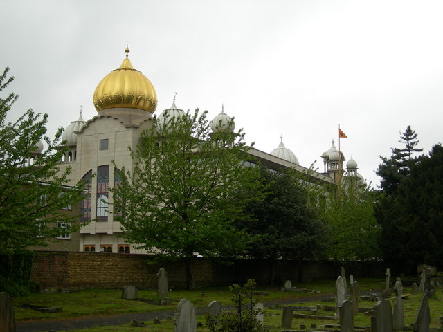 Sri Guru Singh Sabha Gurdwara, Havelock Road, Southall This is the largest Sikh Temple outside India. Follow this link to a BBC News story about its opening in 2003. This photo was taken from a nearby cemetery, not connected with the Temple.